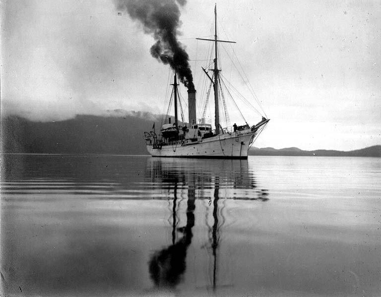 On verso of image: Albatross . Belonged to the U.S. Bureau of Fisheries In Folder 132 Subjects (LCSH): Albatross (Schooner); Schooners--Alaska